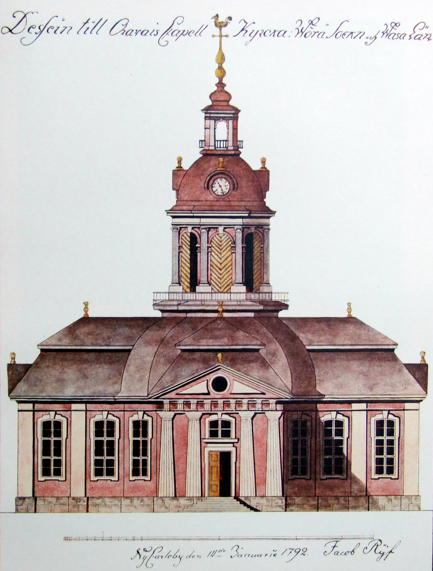 Jacob Rijf's drawing for Oravais church in 1792